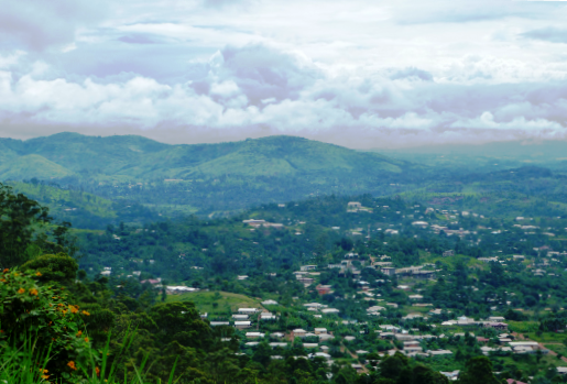 View of Bafut. Settlement in North West Region of Cameroon.